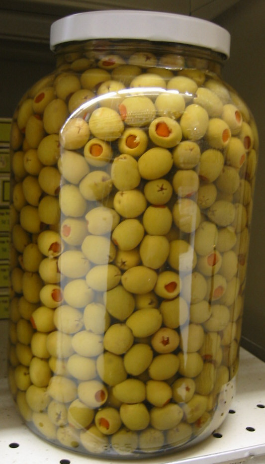 Green Spanish olives, stuffed, large jar